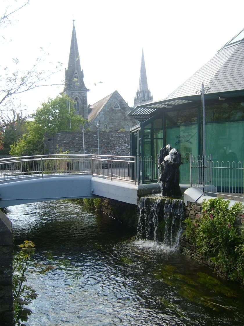 Town of Clonakilty in Ireland. Statues with church near river.